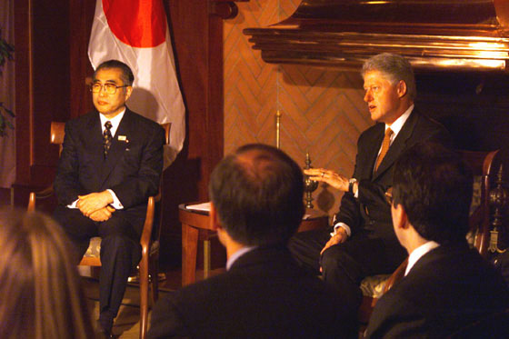 On the first day of the 1999 G8 Summit in Cologne, Germany, the President meets with Prime Minister Keizo Obuchi of Japan.